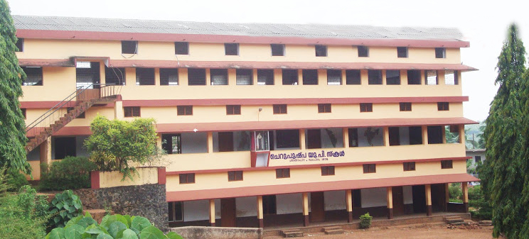 LITTLE FLOWER U.P. SCHOOL CHANDANAKAMPARA,FRONT VIEW